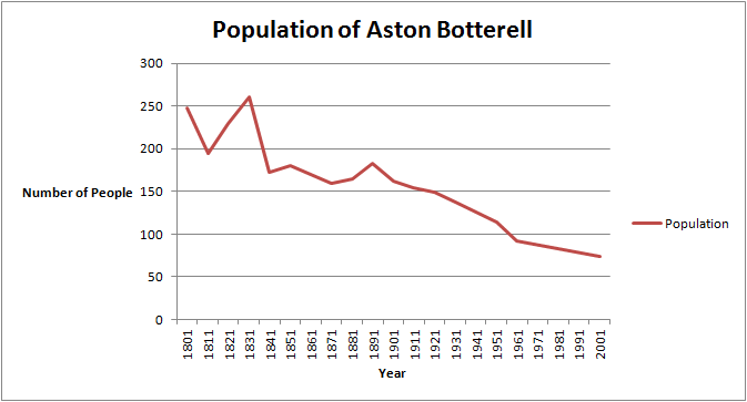 Graph depicting the change of population in Aston Botterell between 1801 and 2001